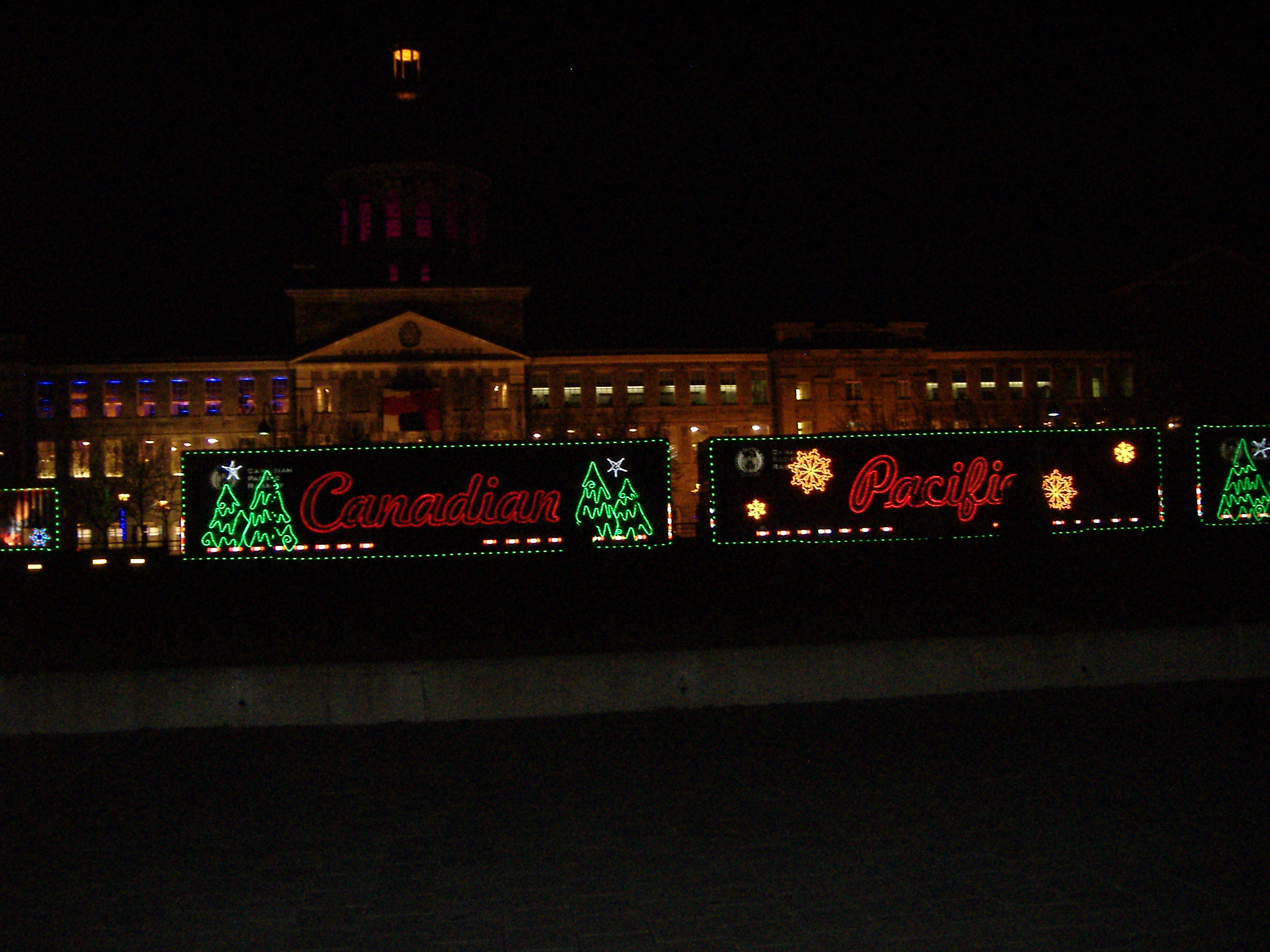 Photo I took of the Canadian Pacific Holiday train near the Marché Bonsecours in Montreal november 29th 2009 (29-11-2009)